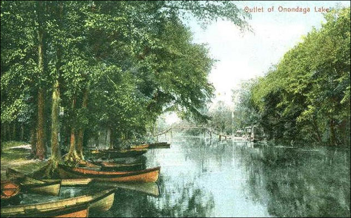 Outlet on Onondaga Lake outside of Syracuse, New York about 1900